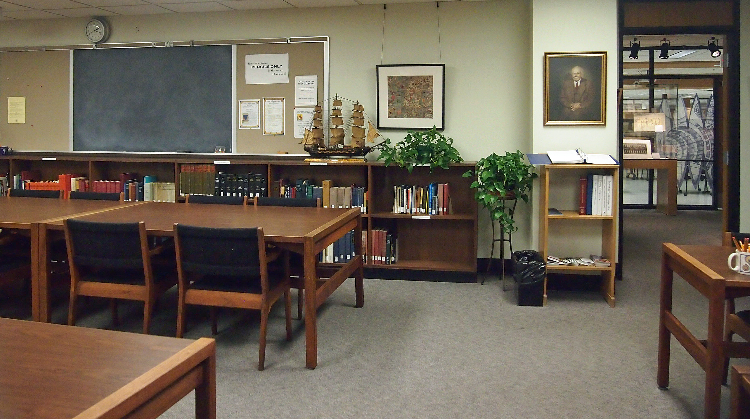 James Ford Bell Library, Suite 472, Wilson Library, 309 19th Ave S, University of Minnesota, Minneapolis, Minnesota, USA.